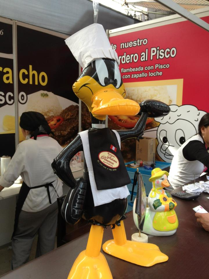 Mistura in Campo de Marte, Jesús María, Lima, Peru.